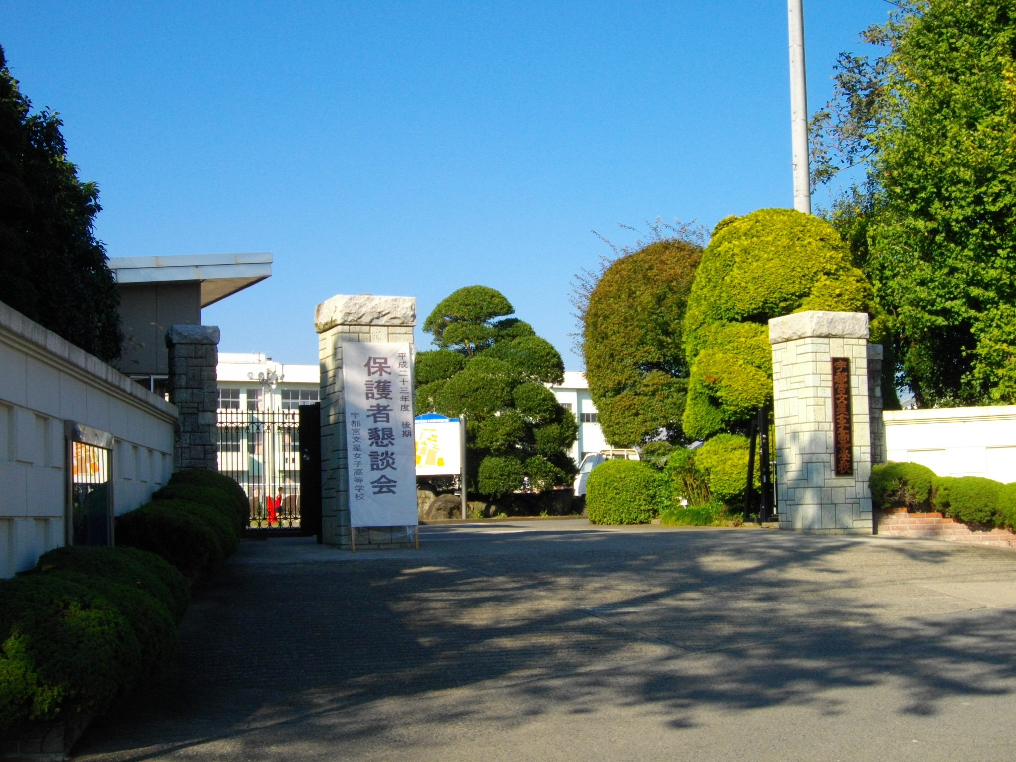 Utsunomiya Bunsei Girls' High School